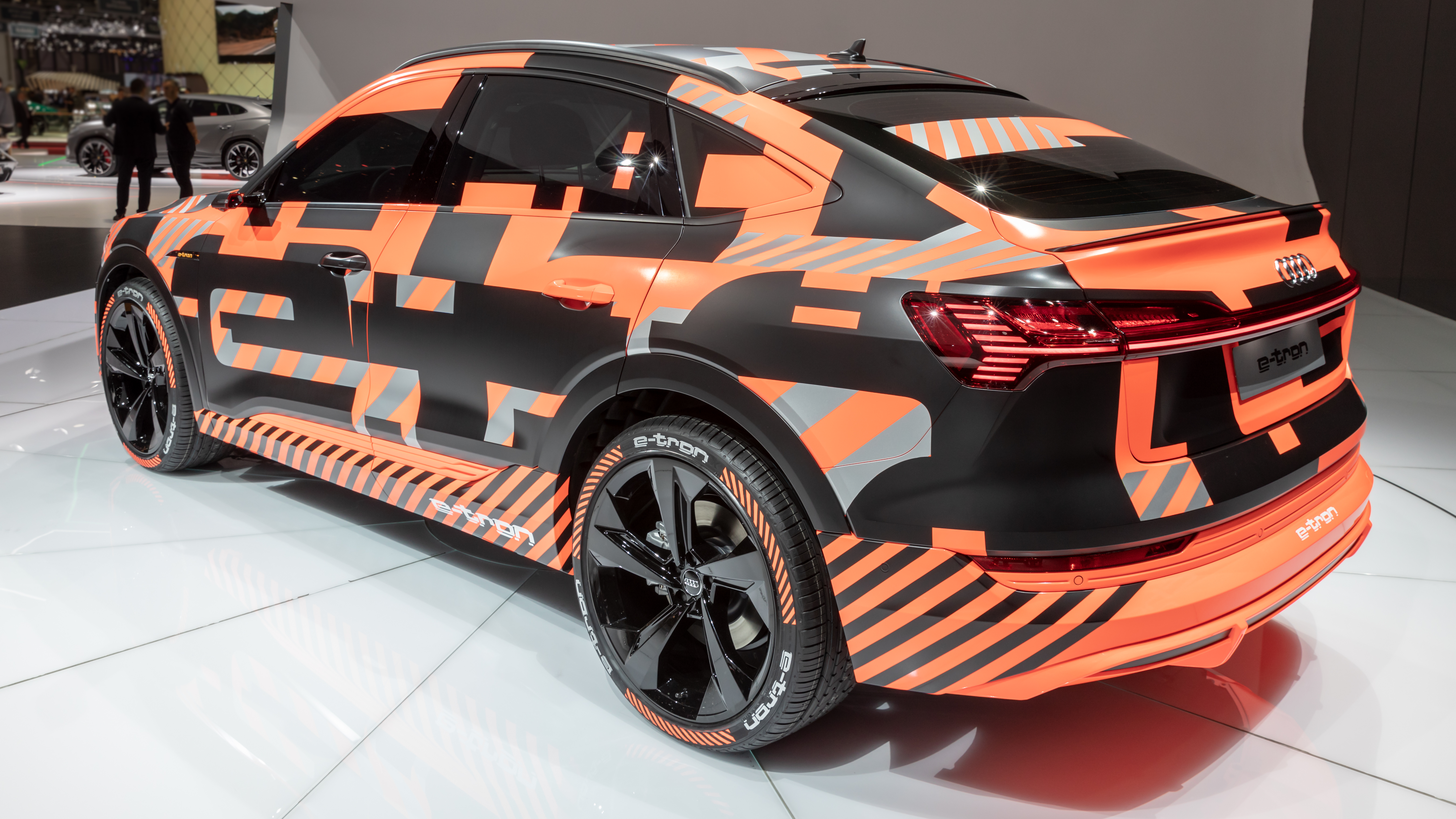 Audi e-tron Sportback at Geneva International Motor Show 2019, Le Grand-Saconnex